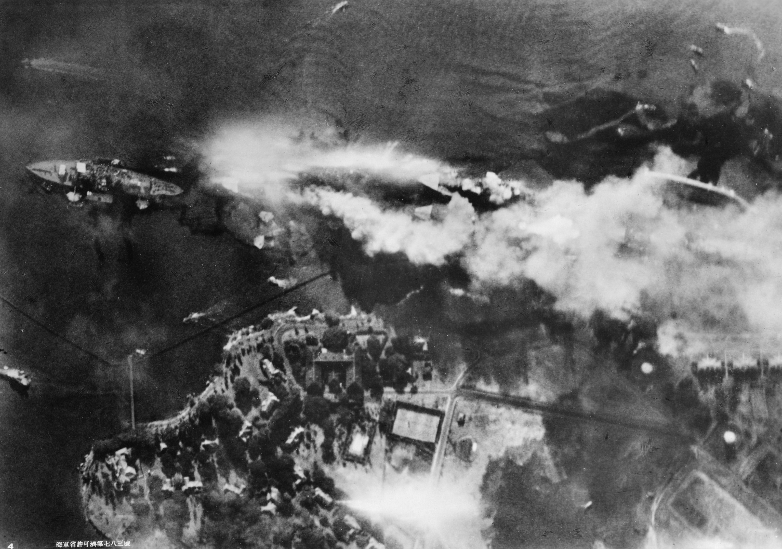 Vertical aerial view of "Battleship Row" at Pearl Harbor, beside Ford Island, soon after USS Arizona was hit by bombs and her forward magazines exploded. Photographed from a Japanese aircraft. Ships seen are (from left to right): USS Nevada; USS Arizona (burning intensely) with USS Vestal moored outboard; USS Tennessee with USS West Virginia moored outboard; and USS Maryland with USS Oklahoma capsized alongside. Smoke from bomb hits on Vestal and West Virginia is also visible. Japanese inscription in lower left states that the photograph has been reproduced under Navy Ministry authorization.